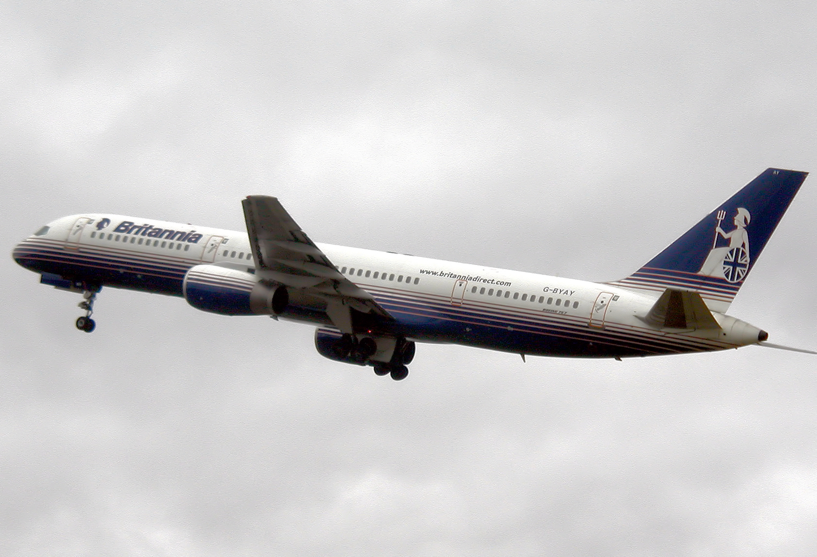 Britannia Airways Boeing 757-200 Boeing 757-200 (G-BYAY) at Bristol International Airport, Bristol, England.